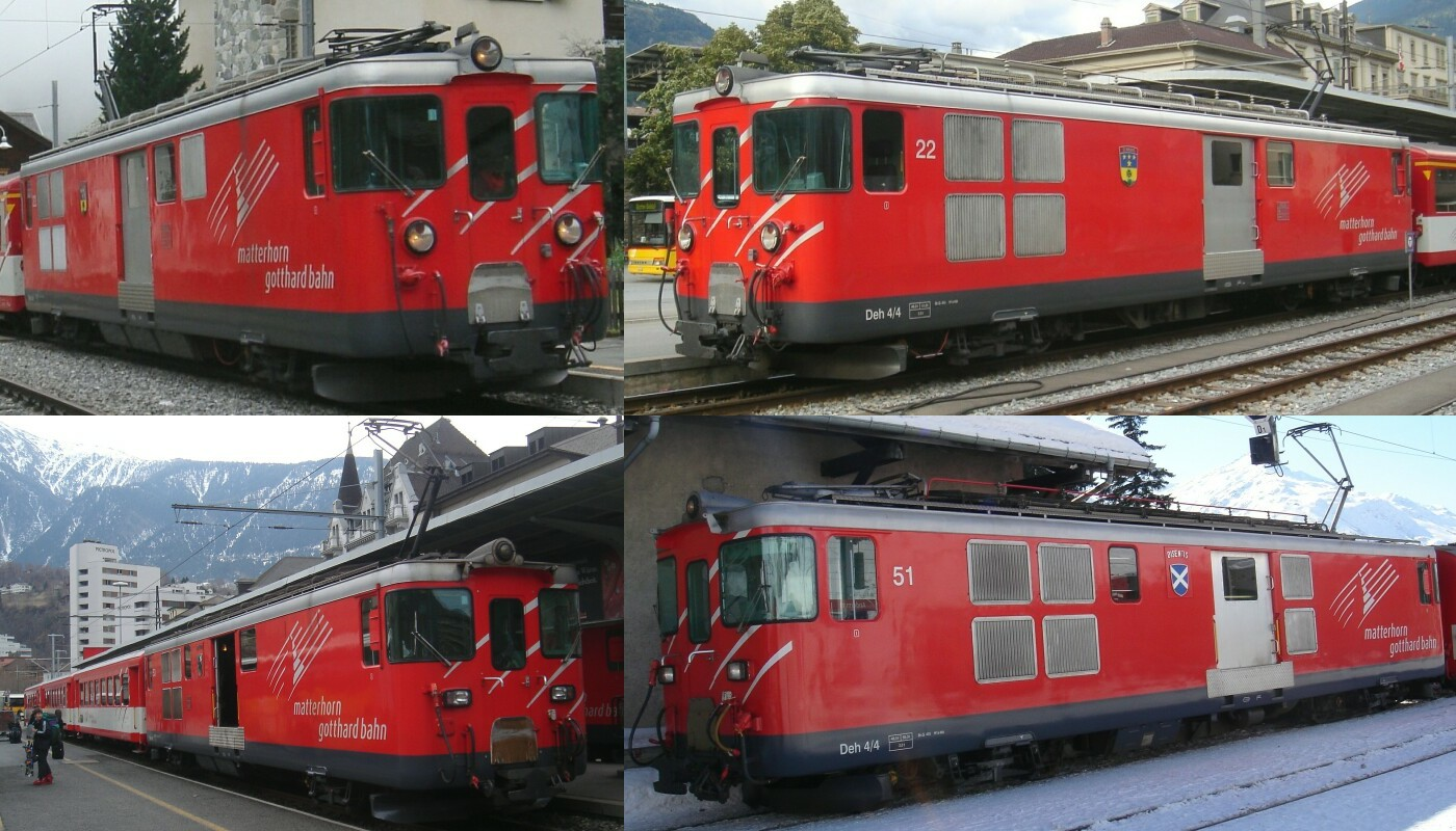 Comparison of MGB-Deh 4/4 21-24 ex-BVZ and 51-55 ex-FO